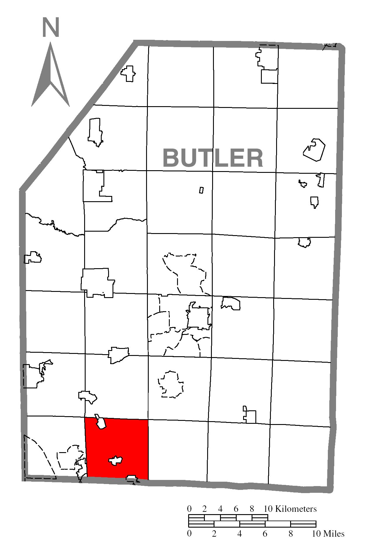 A map of Butler County showing Adams Township, Pennsylvania (alternate) highlighted on the map.